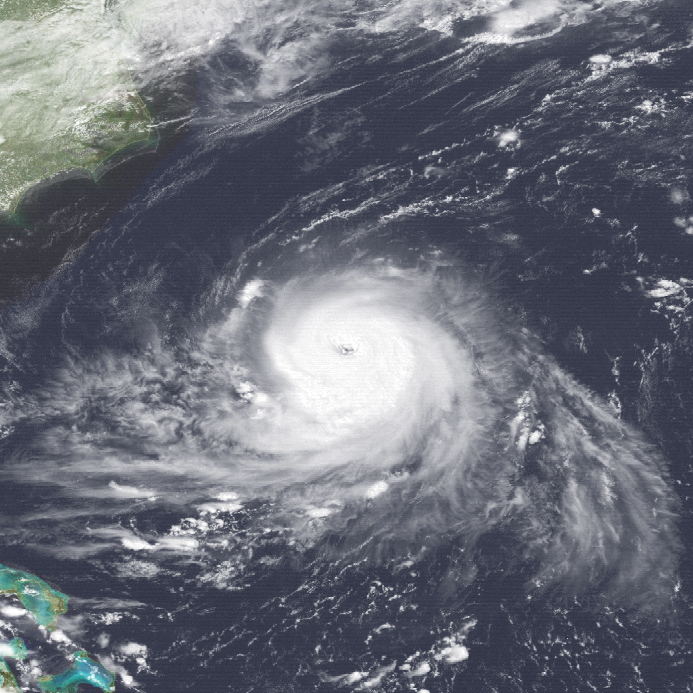 Hurricane Ella at its initial peak intensity as a strong Category 3 hurricane on September 1, 1978